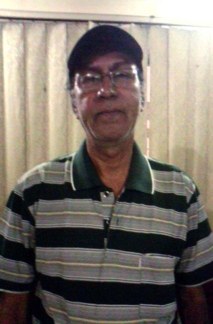 Belal Ahmed at Film director's office - 2011